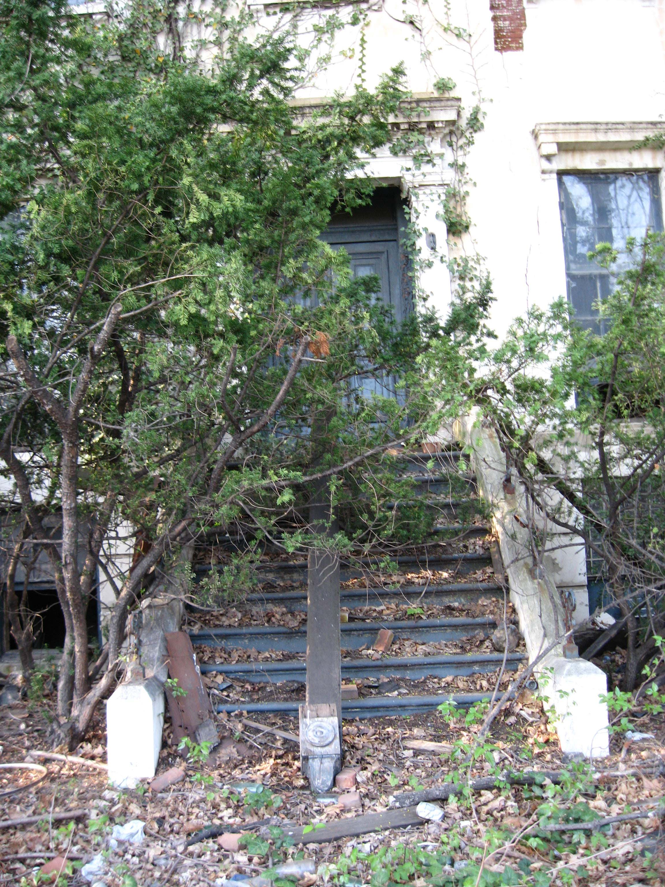 Officers home on Admirals Row in Brooklyn Navy Yard with roof decoration fallen onto staircase. Looking north from Flushing Avenue through fence late on a partly cloudy spring day. [Building B]